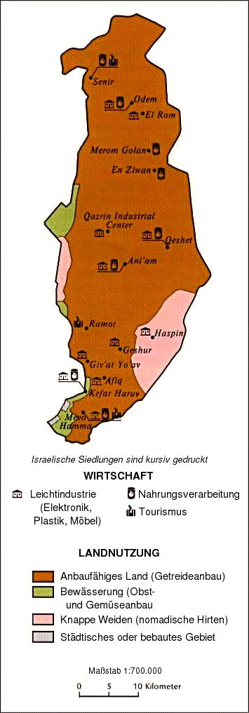 Map of the Golan Heights - Economic Activity and Land Use (German labels)